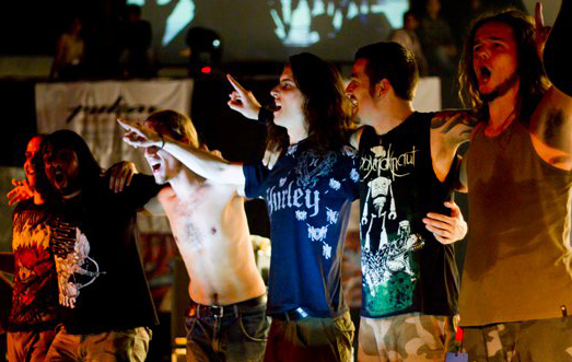 Textures at Rendezvous Festival, IIT Delhi, India.